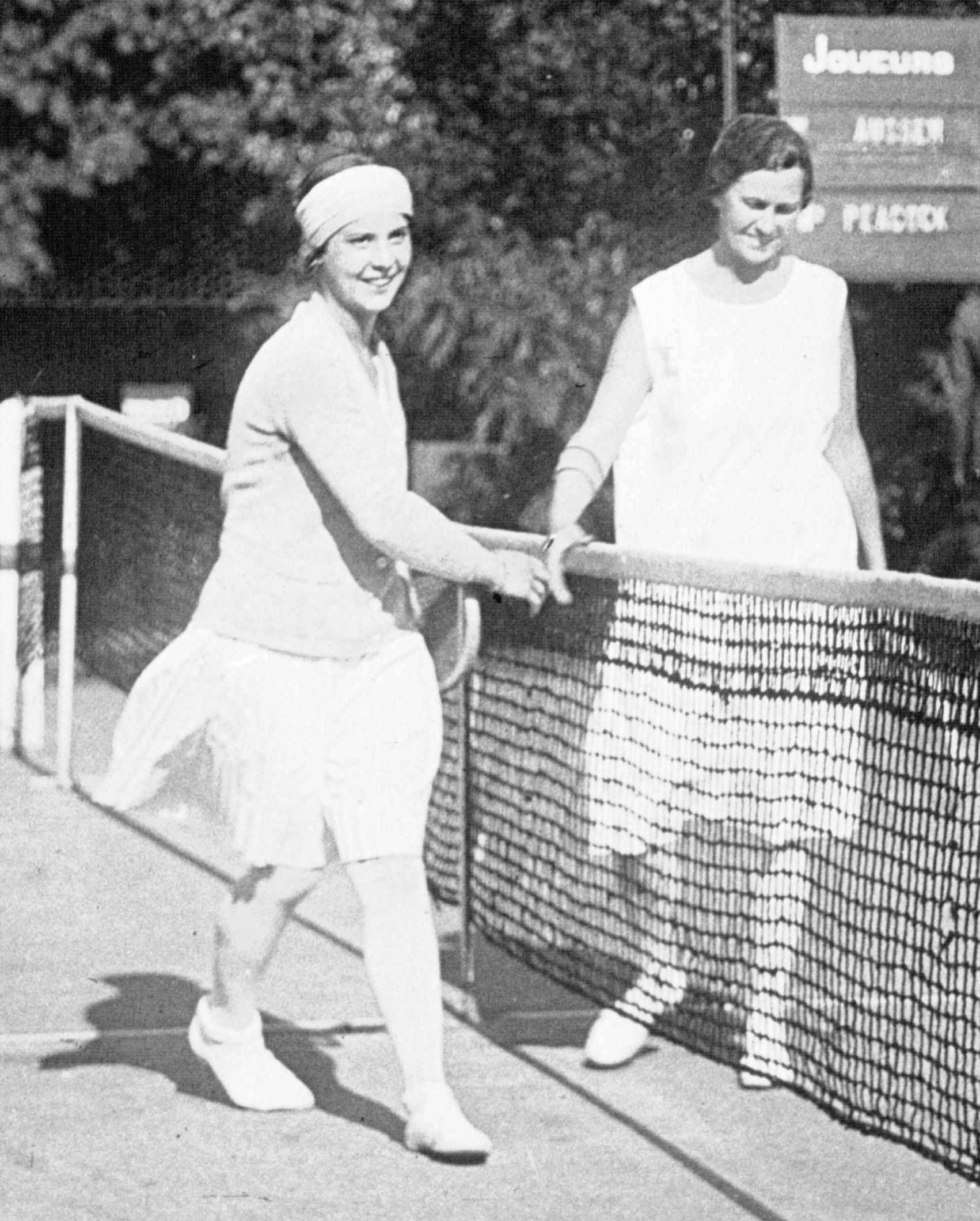 Quarterfinal match between German Cilly Aussem (left) and South African Irene Peacock at the 1927 French Championships. Players shake hands after the match which Peacock won 4-6, 6-2, 6-4.